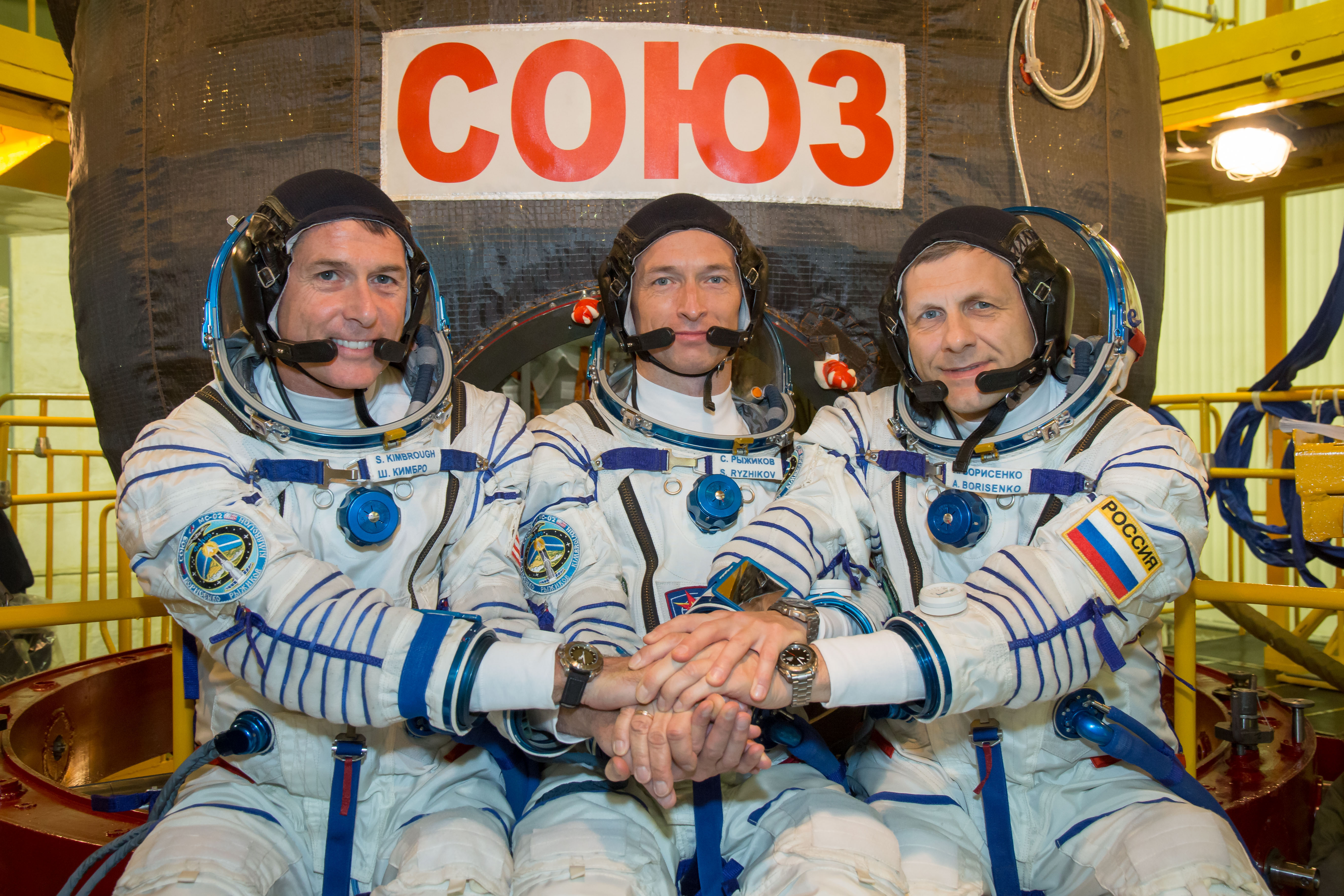 At the Integration Facility at the Baikonur Cosmodrome in Kazakhstan, Expedition 49 crewmembers Shane Kimbrough of NASA (left) and Sergey Ryzhikov (center) and Andrey Borisenko (right) of Roscosmos pose for pictures Sept. 9 in front of their Soyuz MS-02 spacecraft during a pre-launch training fit check. Kimbrough, Ryzhikov and Borisenko will launch Sept. 24, Kazakh time on the Soyuz MS-02 vehicle for a five-month mission on the International Space Station.